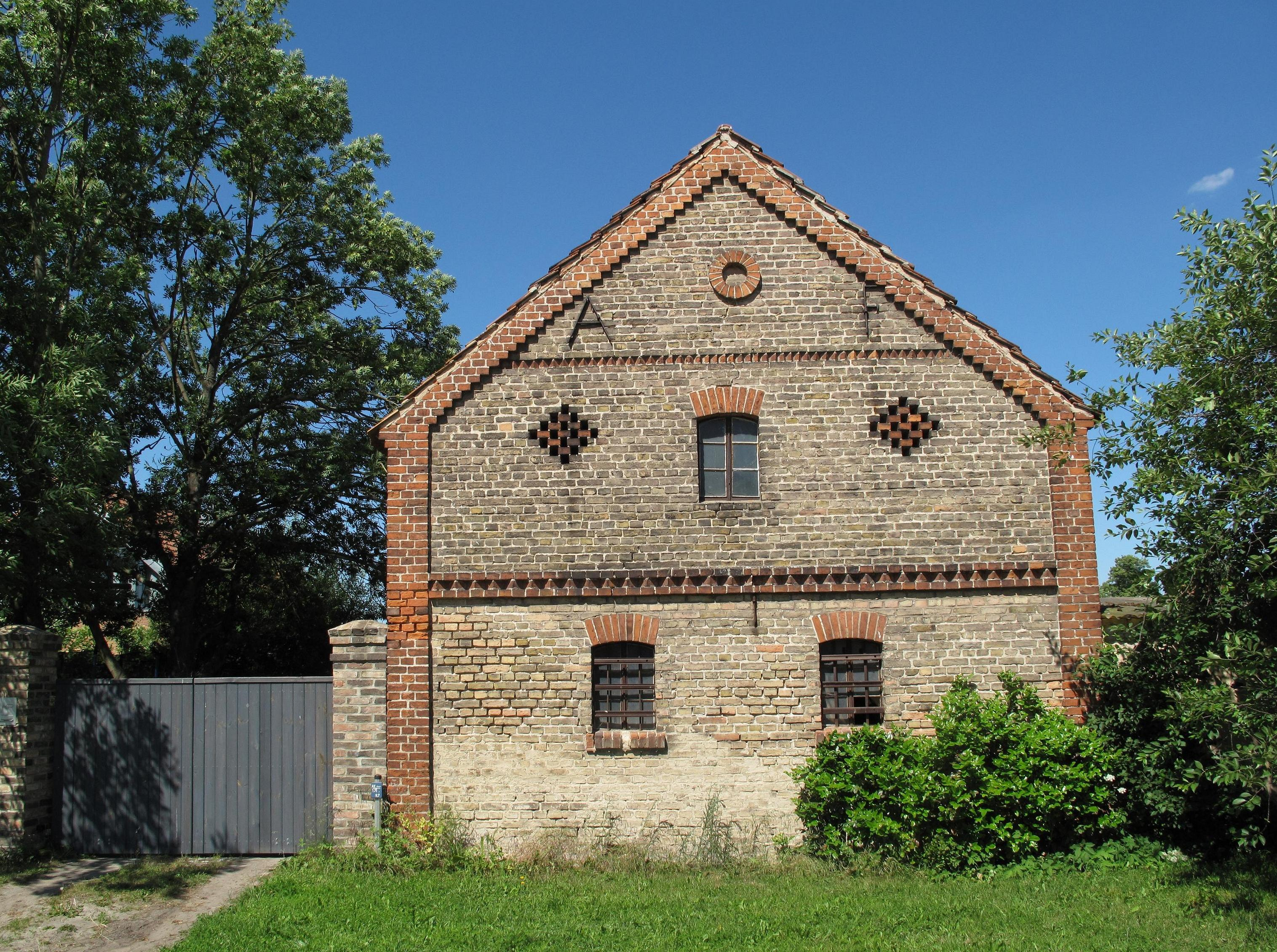 Historic village centre of Wildenbruch, farmhouse in the Dorfstraße. (german for: village street). Wildenbruch is a part of Michendorf in the district Potsdam-Mittelmark, state Brandenburg, Germany.